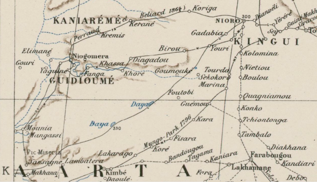 Mapa de Guidioumé, Kaniarémé i Kingui